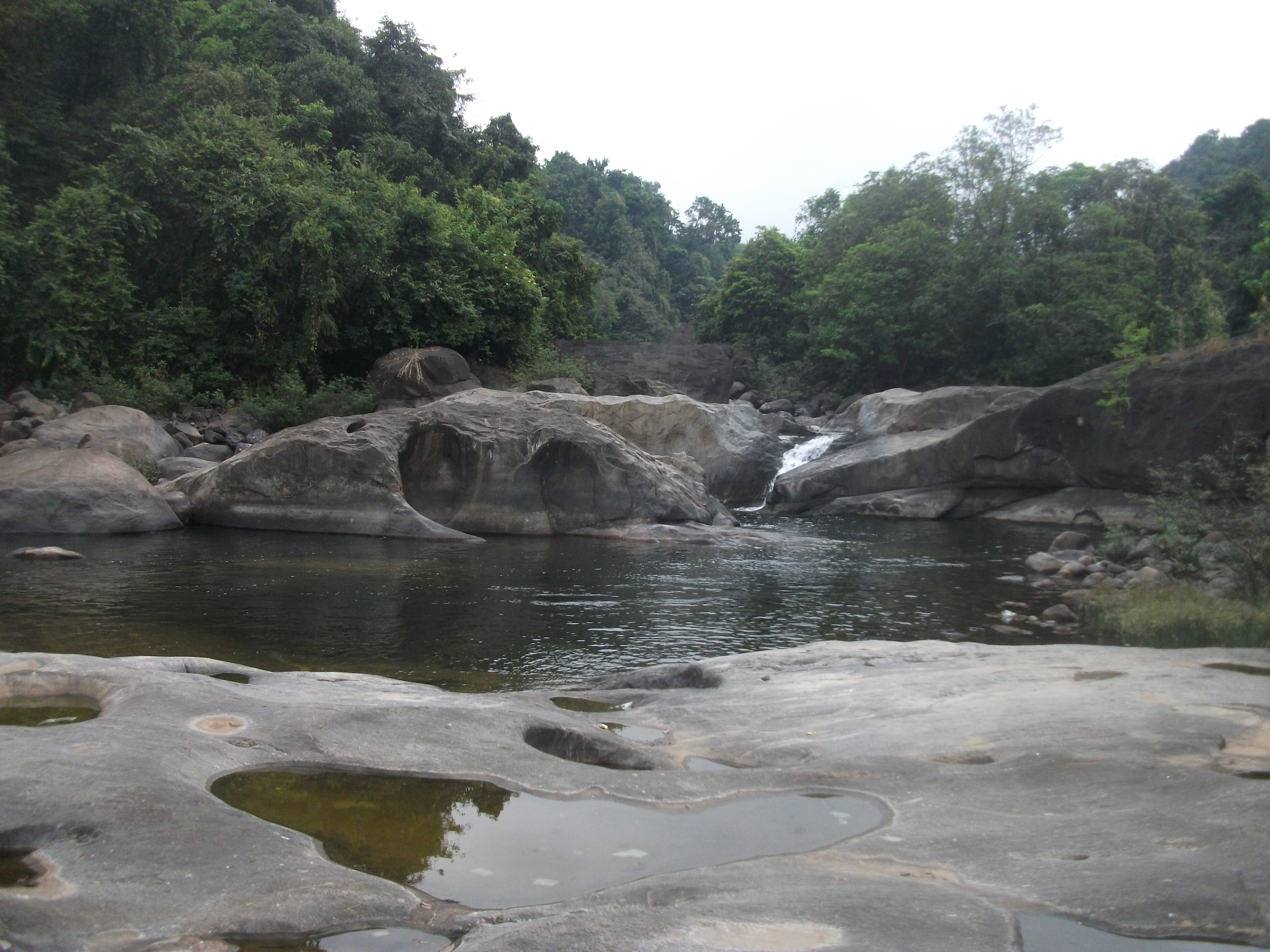 Arippara Waterfalls in Thiruvanpadi, Kozhikode district, Kerala